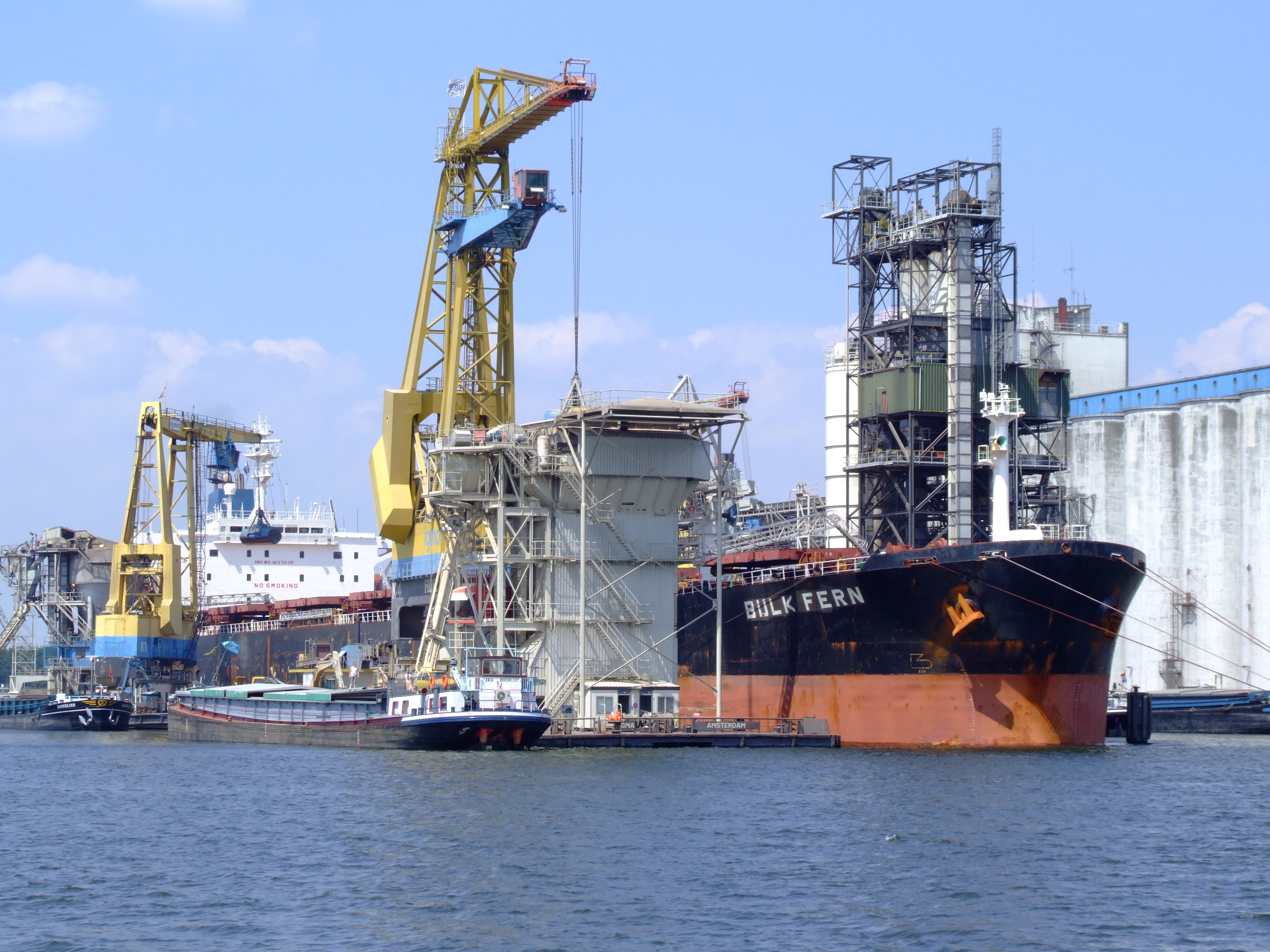 Photographed at Port of Amsterdam, The Netherlands